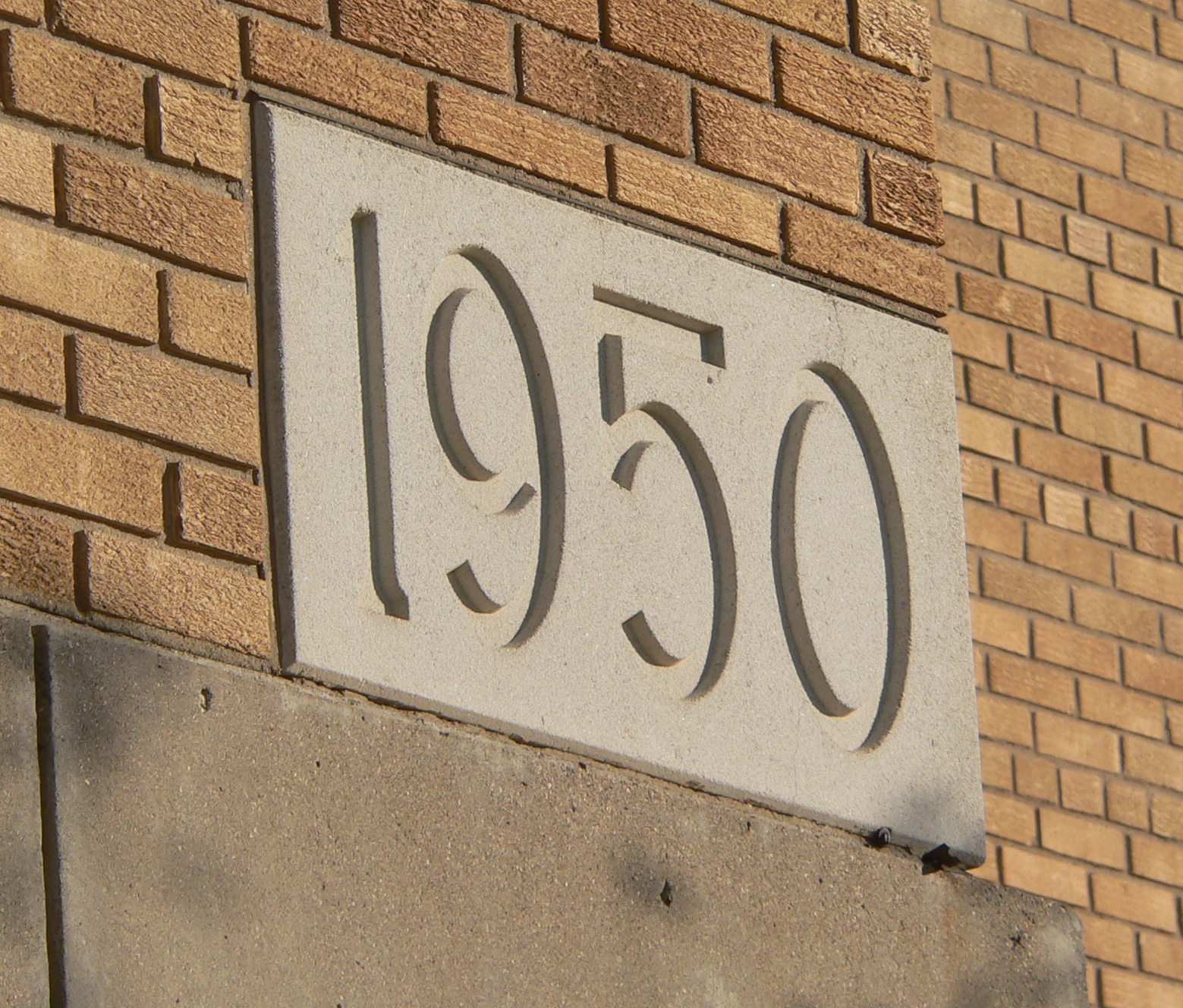 Cornerstone at southeast corner of Sioux City Municipal Auditorium, now part of the Tyson Events Center, in Sioux City, Iowa.